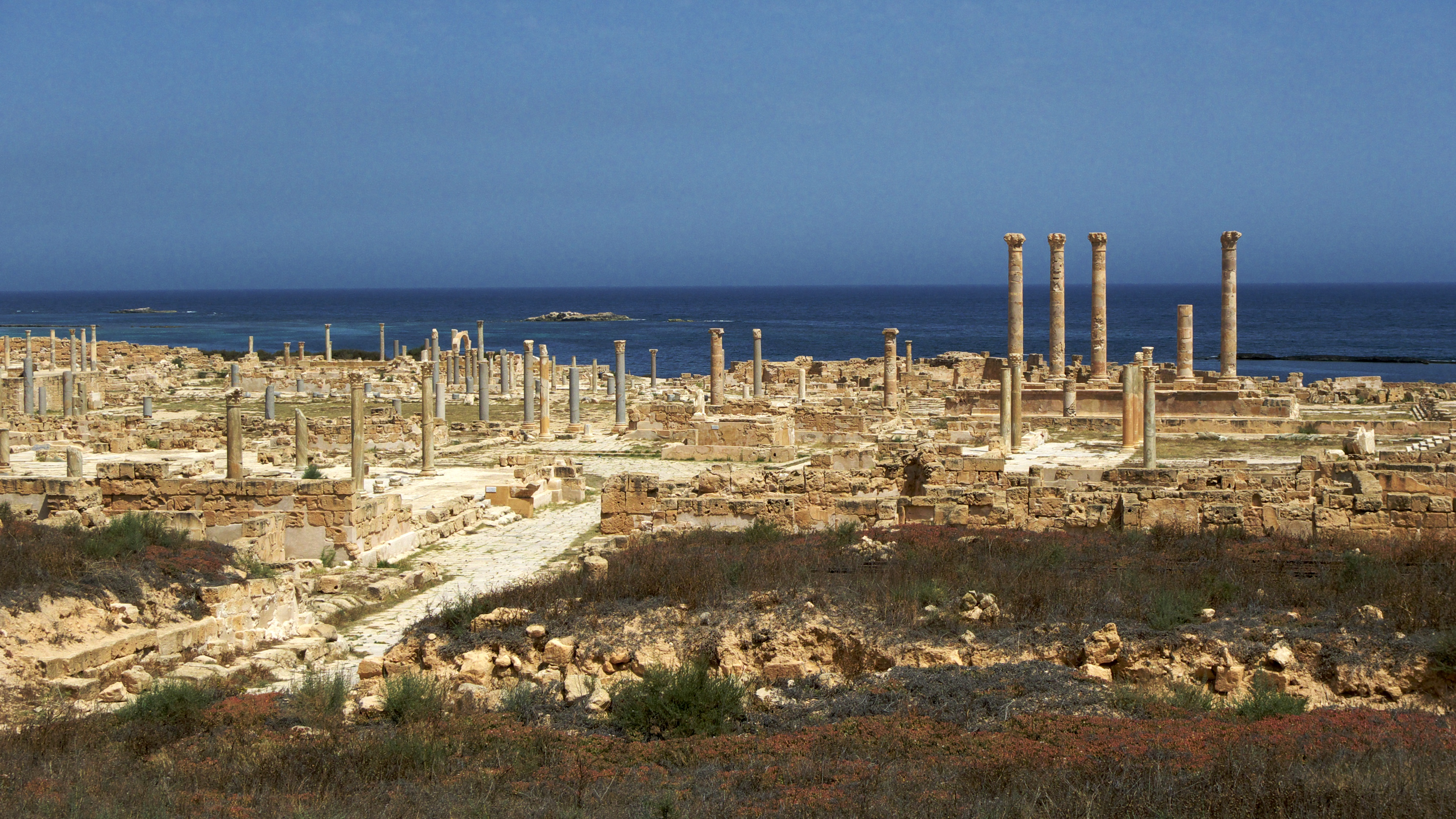 Sabratha